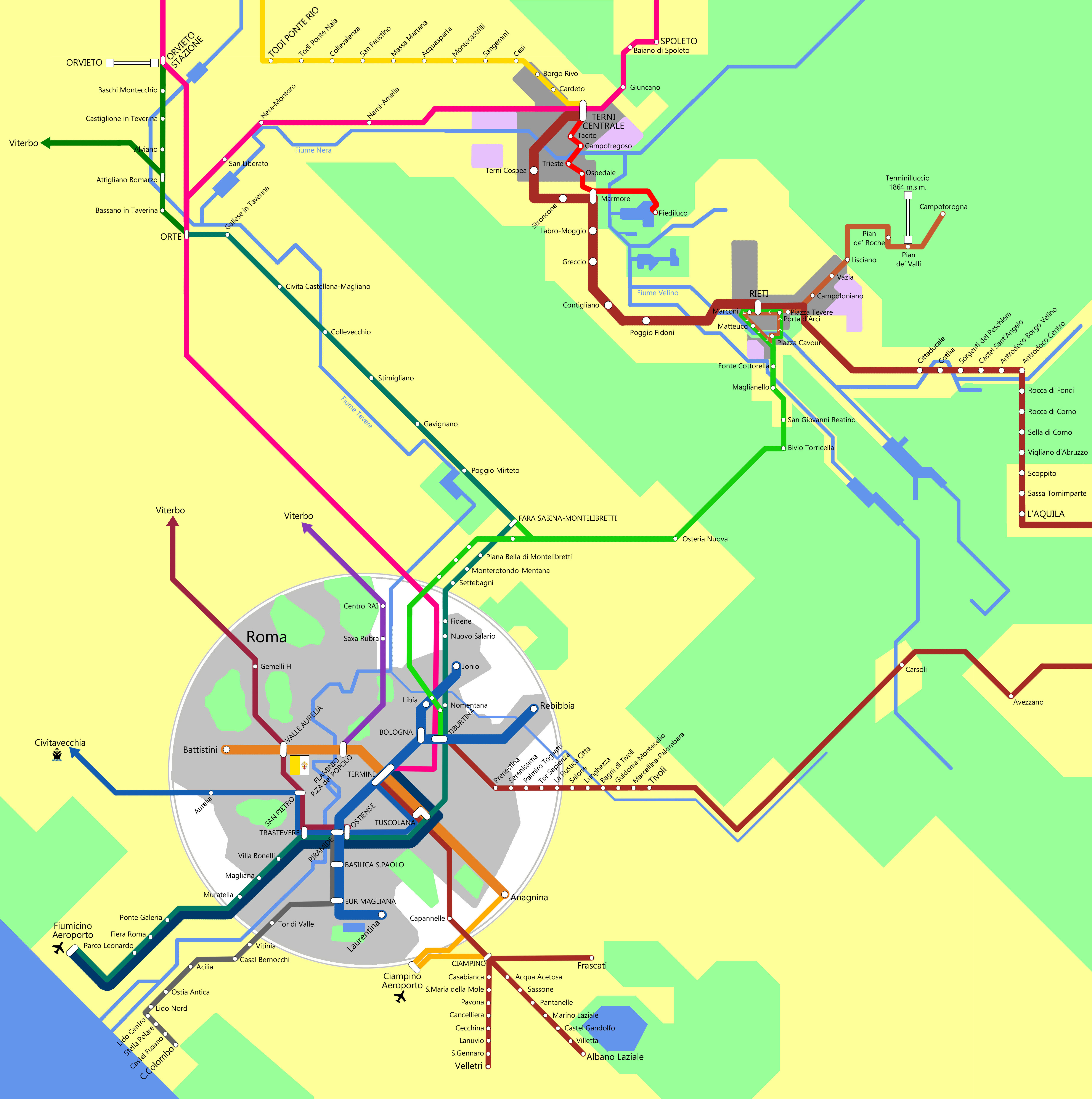 map of the public transport system in the northeast metropolitan area of Rome